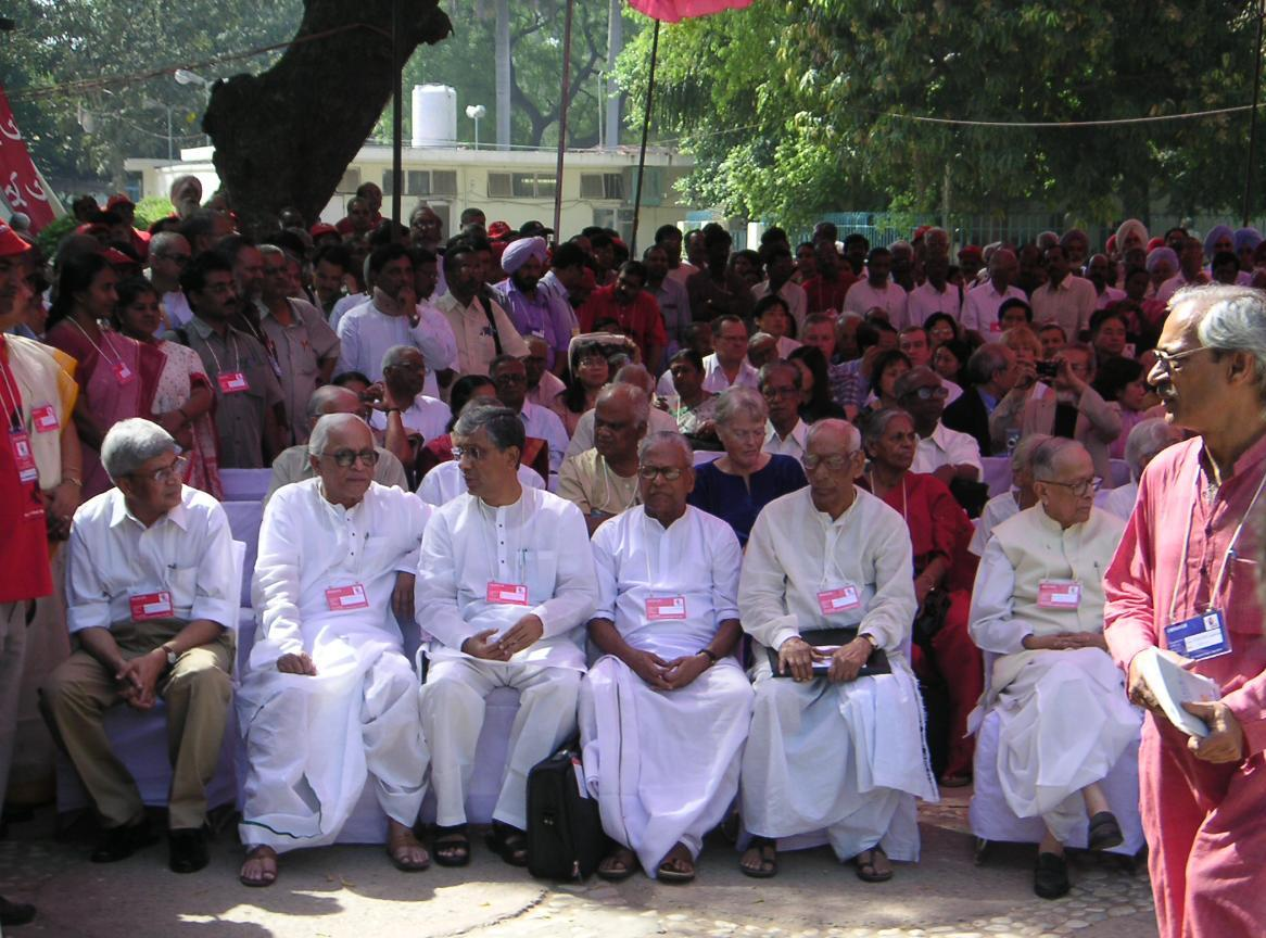 Inaugural session of the 18th Congress of the Communist Party of India (Marxist), Delhi. On front row are (from the left) Prakash Karat (the new general secretary), Buddhadev Bhattacharya (Chief Minister of West Bengal), Manik Sarkar (Chief Minister of Tripura), V.S. Achutanandan, Kortala Satyanarayana and Jyoti Basu (former chief minister of West Bengal). Photo: Soman